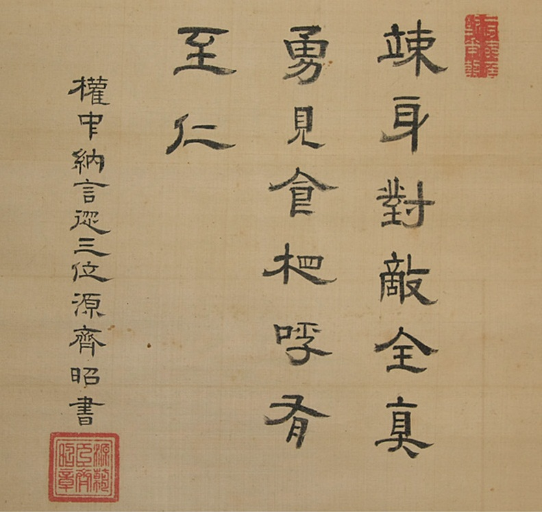 Nariaki Tokugawa's handwriting.